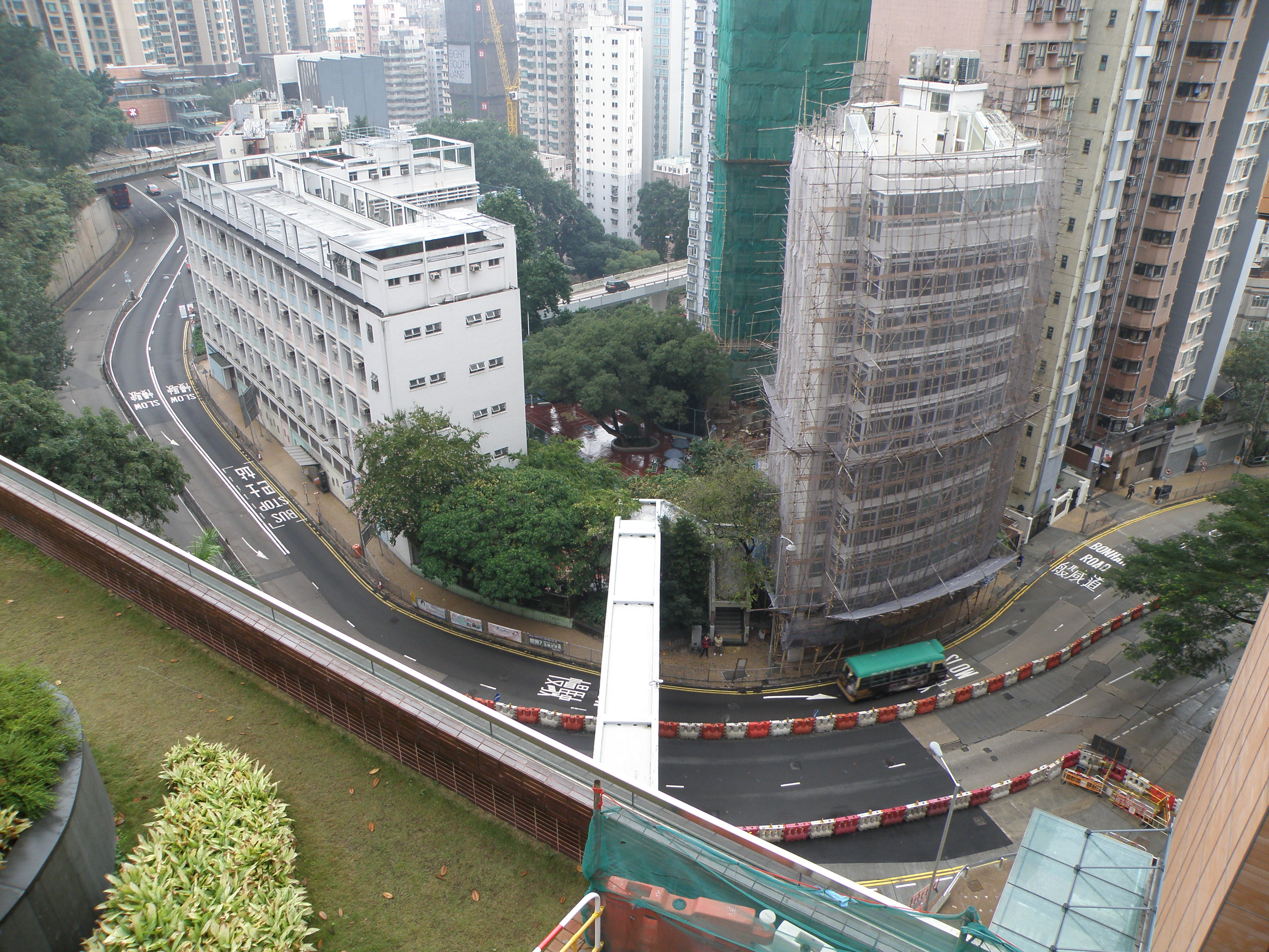 Pok Fu Lam Road (Shek Tong Tsui section) in Hong Kong.